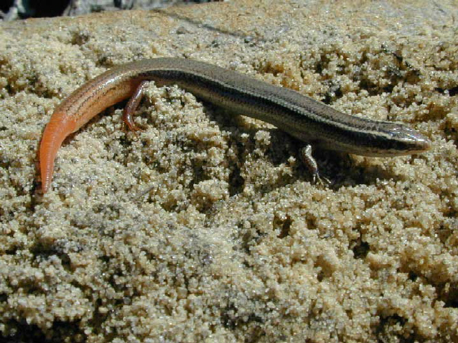 Mole skink